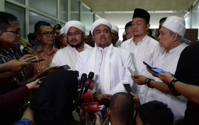 Habib Rizieq Shihab when interviewed by reporters on the case of 'Balada Cinta Rizieq'